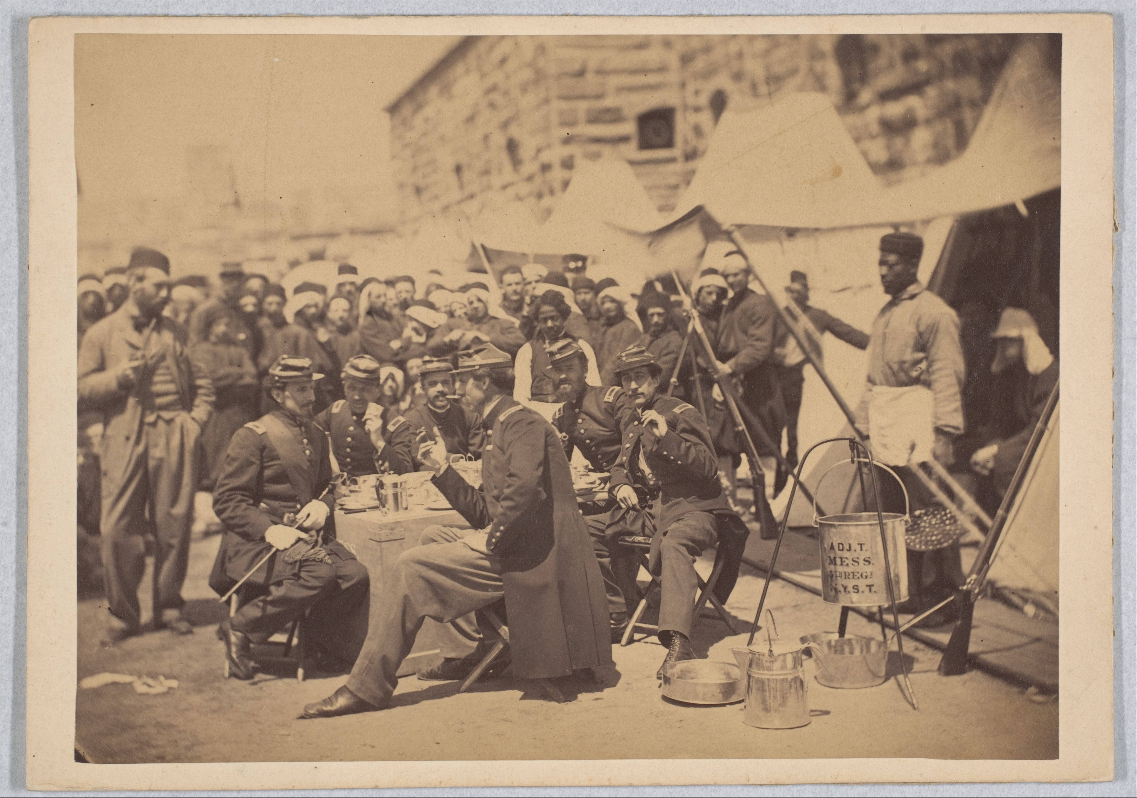 Duryea Zouaves, Adjutant General Regimental Mess, Fort Schuyler, May 18, 1861. Metropolitan Museum of Art: Albumen silver print from glass negative, 5 9/16 x 7 1/2 Accession Number: 2005.100.1231 Provenance: Alfred R. Waud Collection, Civil War Illustrator